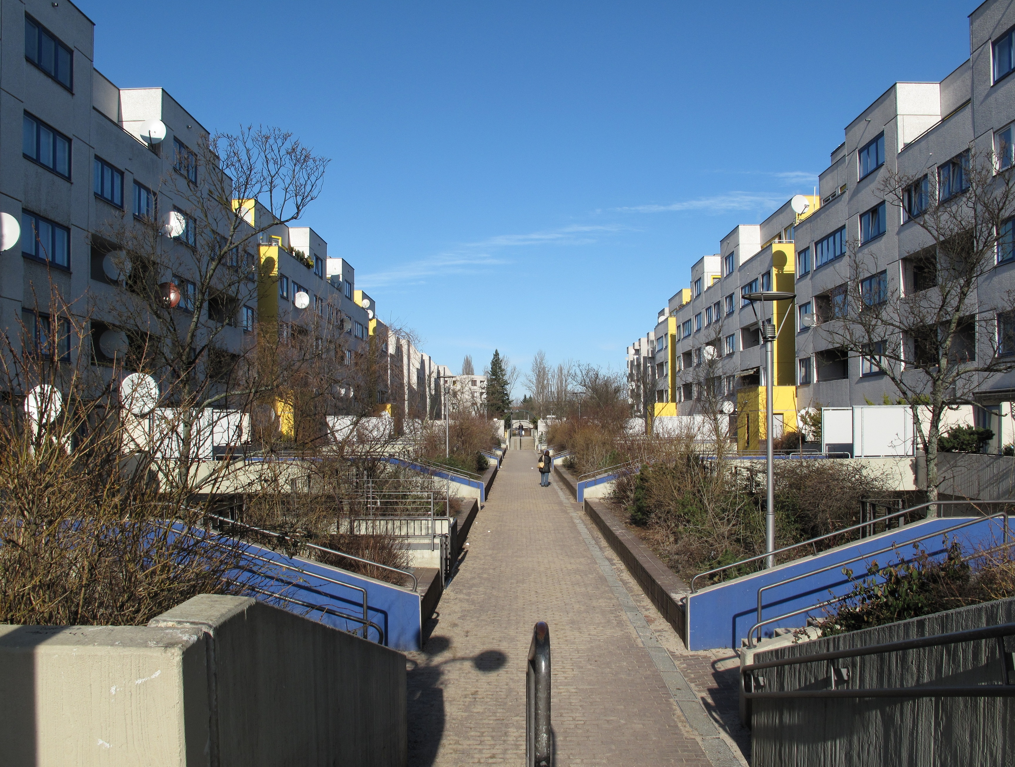 Northern deck of the Leo-Slezak-Straße in the High-Deck-Siedlung. The High-Deck-Siedlung is a housing estate in Berlin-Neukölln with ca. 6.000 inhabitants. The estate was built in the 1970s/1980s within the subsidized housing by the architects Rainer Oefelein and Bernhard Freund. Their innovative urban development concept counted on a structurally separation of pedestrians and traffic in opposition to Berlin's „urbanity through density“ conception (high-rise-estates) at that time. Above the streets spandrel-braced, green foot pathes (the High-Decks) connect the mainly five to six storied houses. Was the estate after it's construction regarded as the epitome of a tranquil and modern urban living at the green edge of West Berlin, it has evolved after the fall of Berlins Wall into a social hotspot. There was set up a neighbourhood management in 1999.